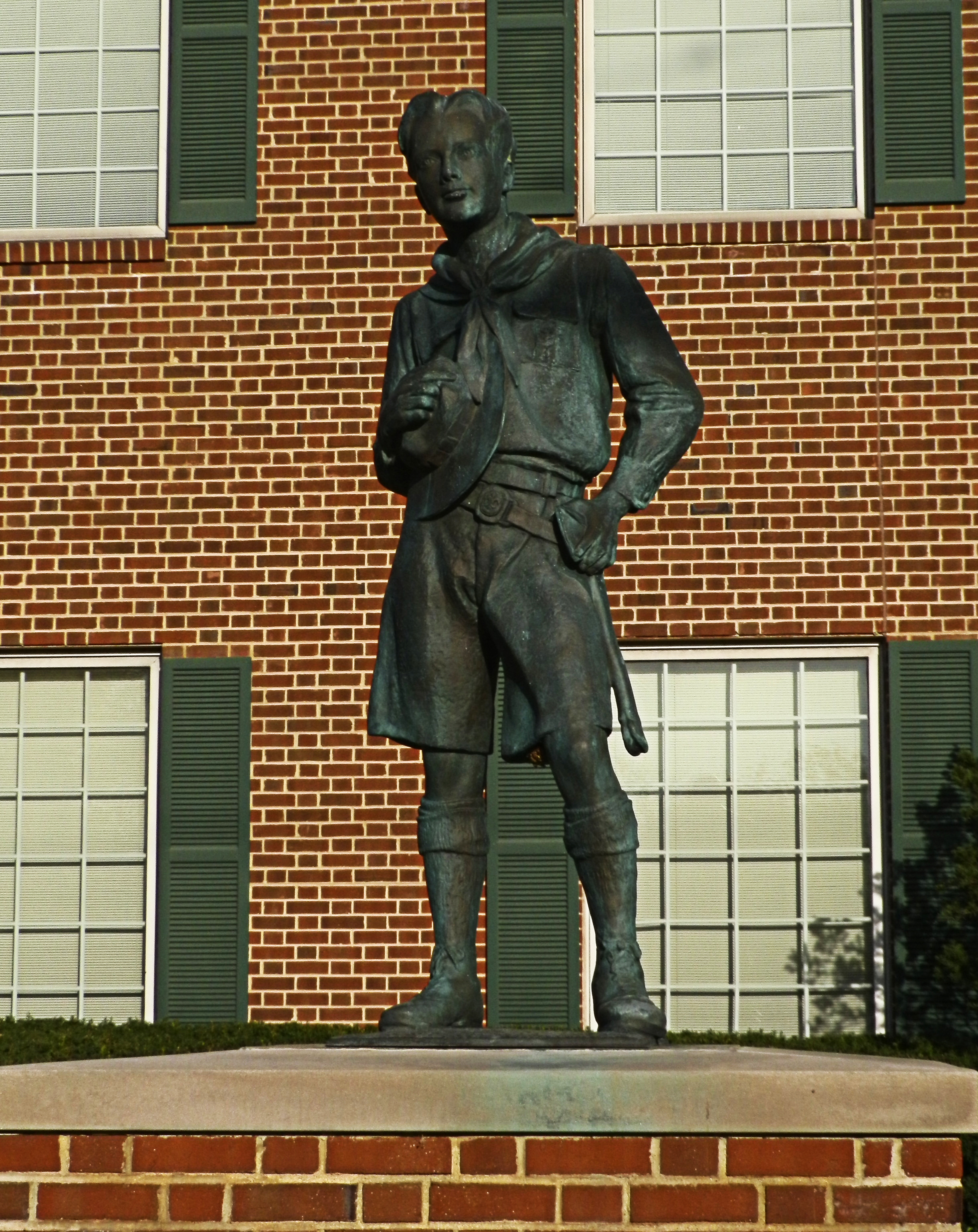 The Ideal Scout by R. Tait McKenzie, 1915